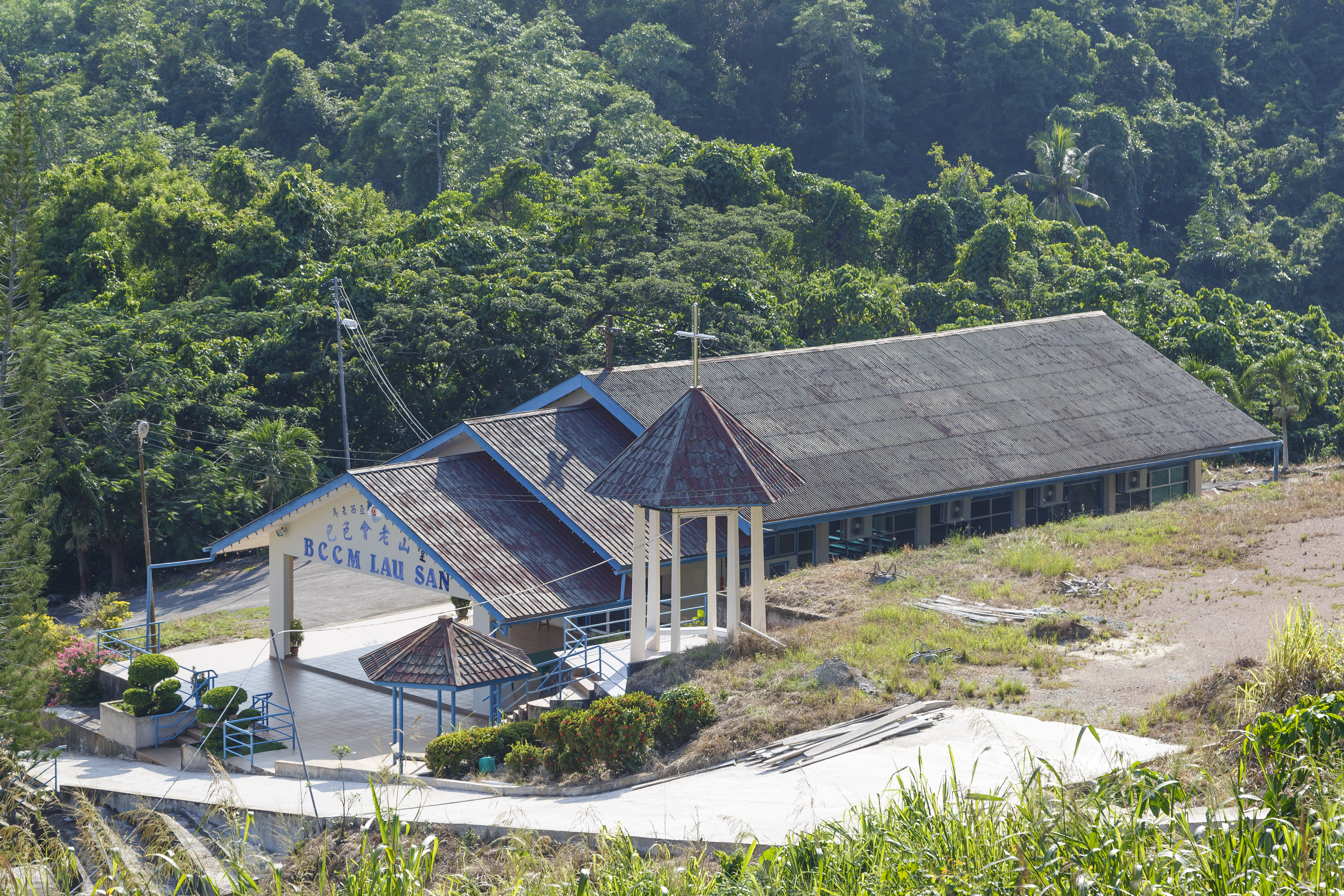 Kudat, Sabah, Malaysia: Basel Church of Malaysia Lau San (BCCM Lau San)